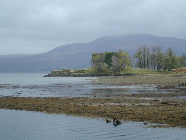 Old Castle Lachlan, by Loch Fyne, Argyll, western Scotland.